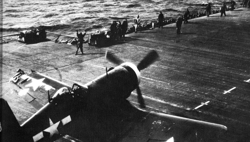 A battle-damaged U.S. Marine Corps Vought F4U-1D Corsair aboard the aircraft carrier USS Bennington (CV-20), in 1945. Marine Fighting Squadrons VMF-112 and VMF-123 were assigned to Carrier Air Group 82. Note Bennington´s geometric air group identification symbol on the wings.